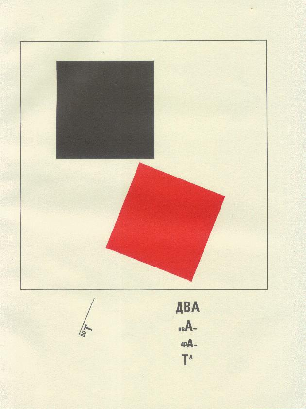 About 2 Squares, p.5